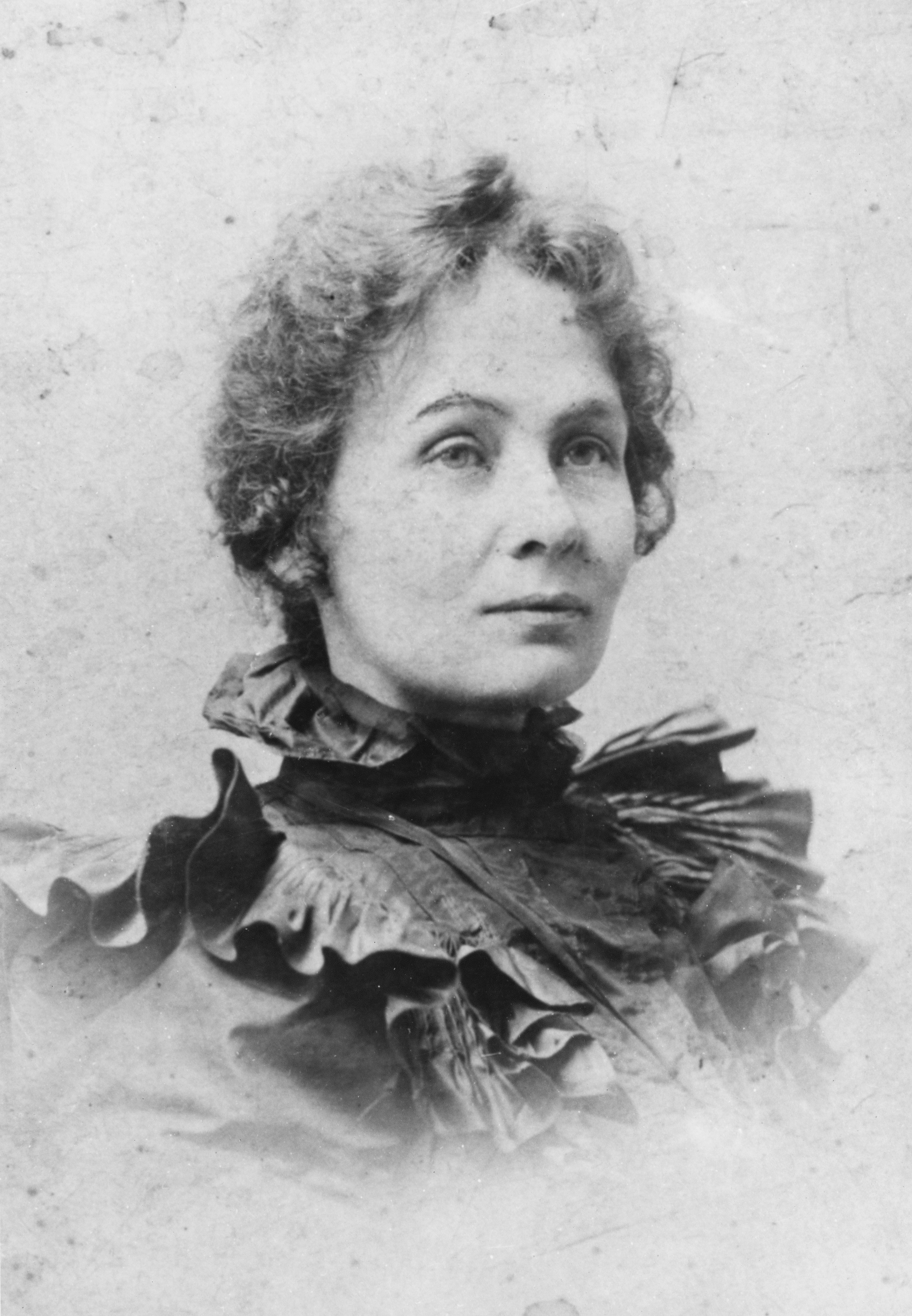 7JCC/O/02/091 Photograph, modern reproduction, printed, paper, monochrome, studio portrait of Emmeline Pankhurst, head and shoulders, three quarters profile; manuscript inscription on reverse 'Mrs E Pankhurst when young'